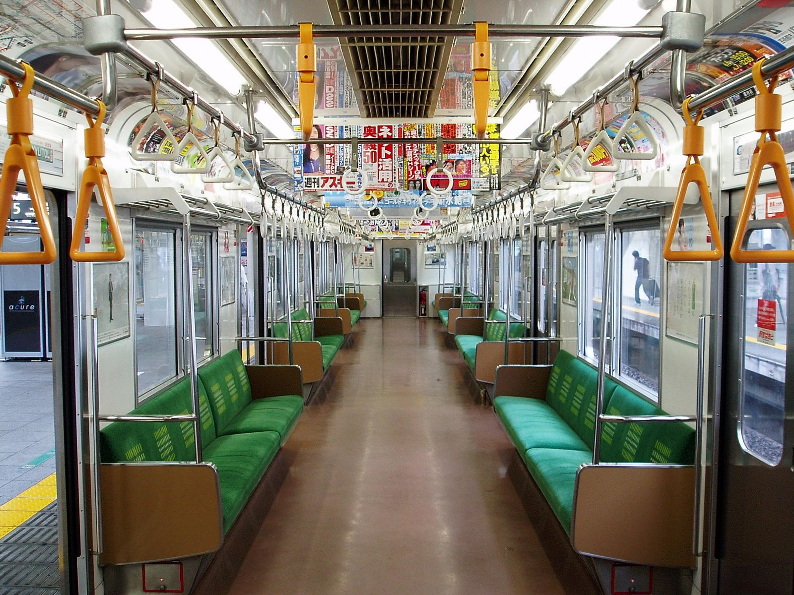 Inside of East Japan Railway Co.,EMU type 205